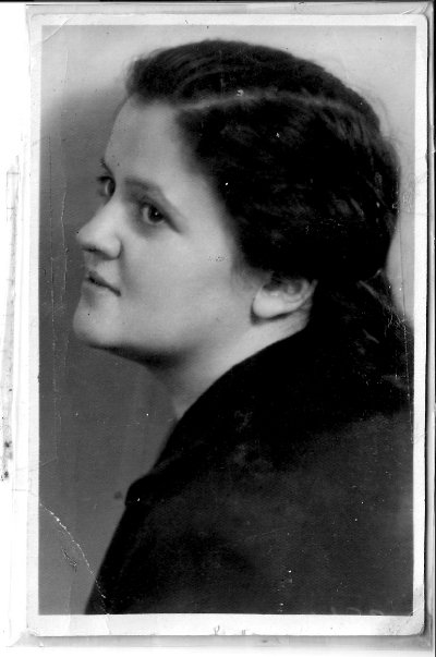 Portrait of Inna Kitrosskaya-Meiman